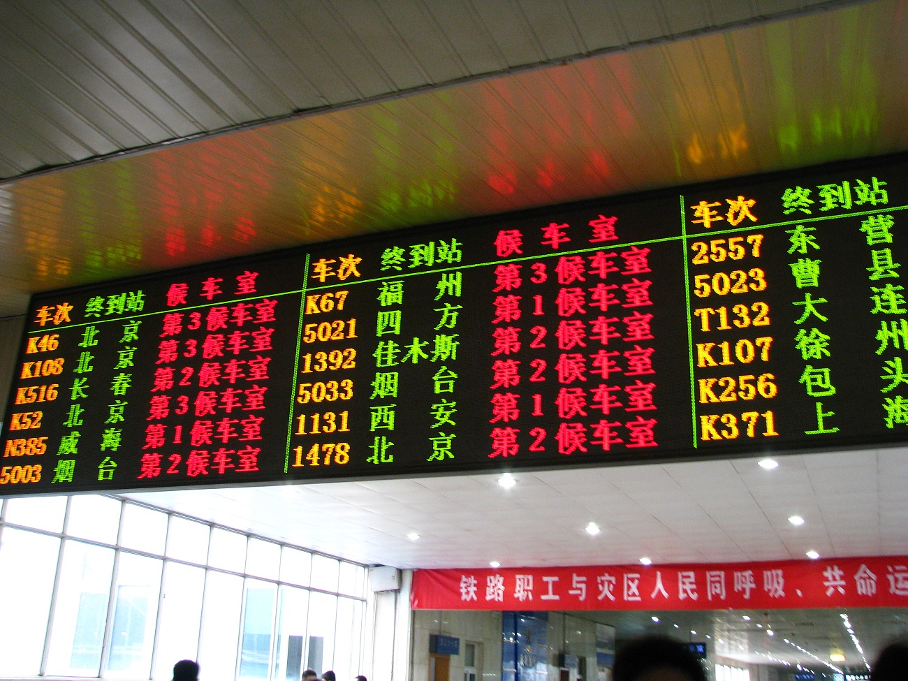 Trains Infomation Display in Jinan Railway Station, China